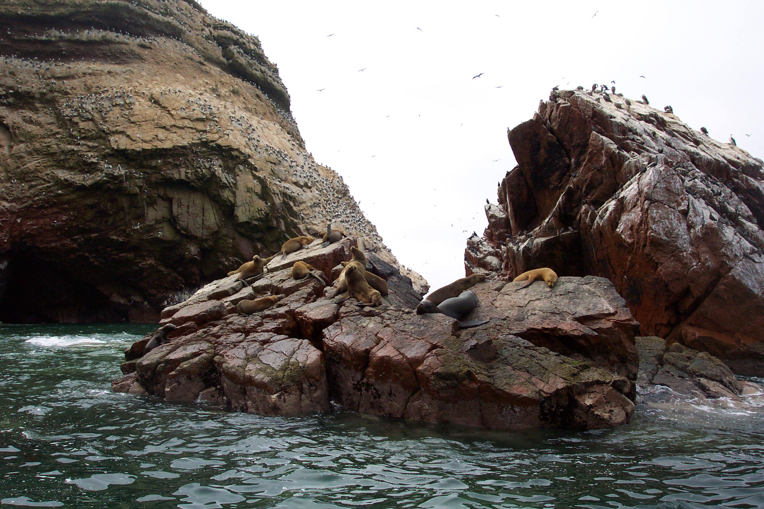 Photo of wildlife on Ballestas Islands